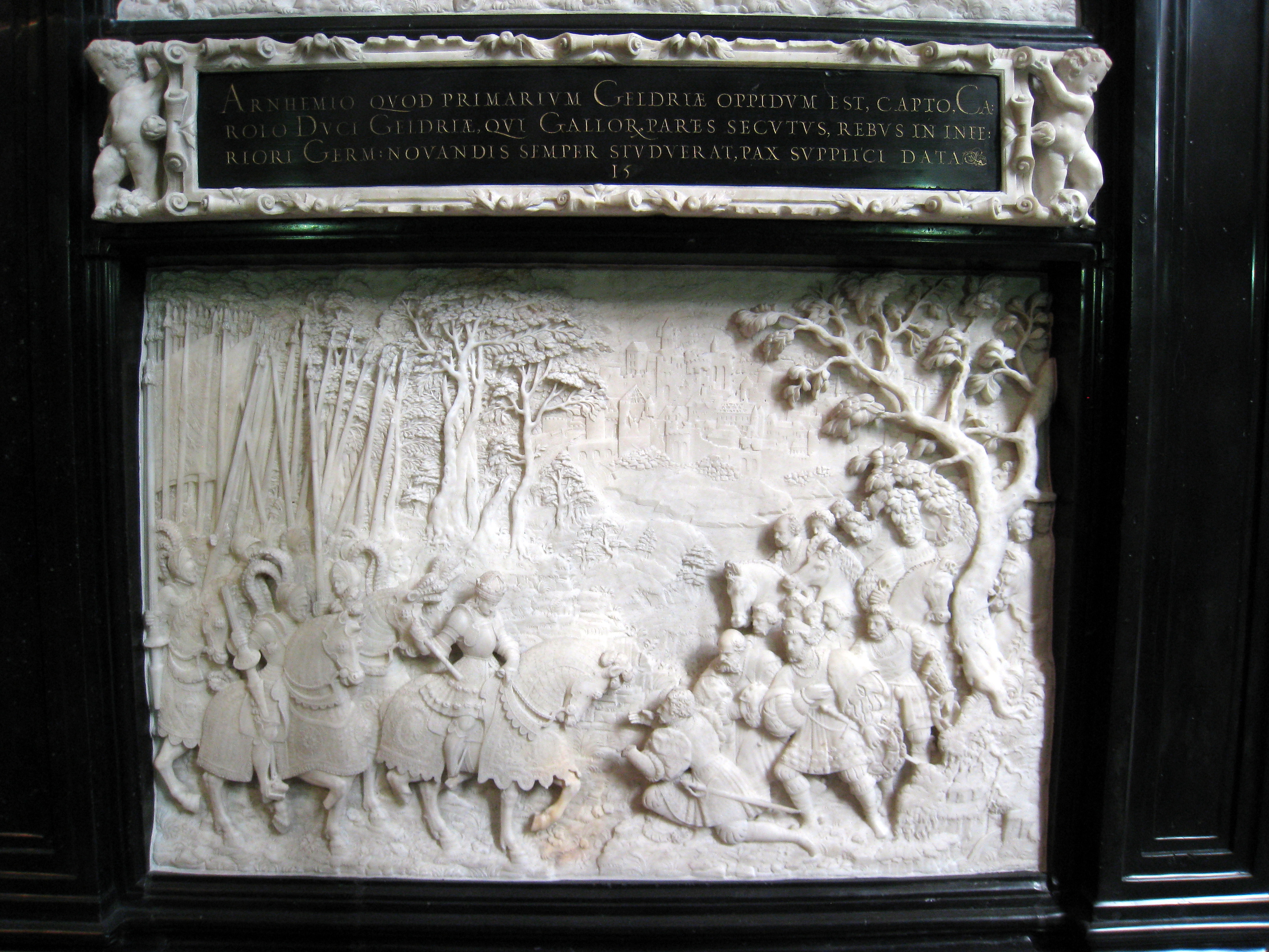 Hofkirche, Innsbruck, Austria - cenotaph of Maximilian I - relief by Alexander Colins based on wood carvings by Albrecht Durer.